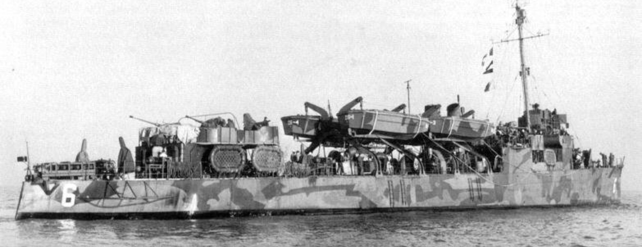 The U.S. Navy high-speed transport USS Stringham (APD-6) off San Francisco, California (USA), on 10 January 1945. She is painted in Camouflage Measure 31, Design 20L.